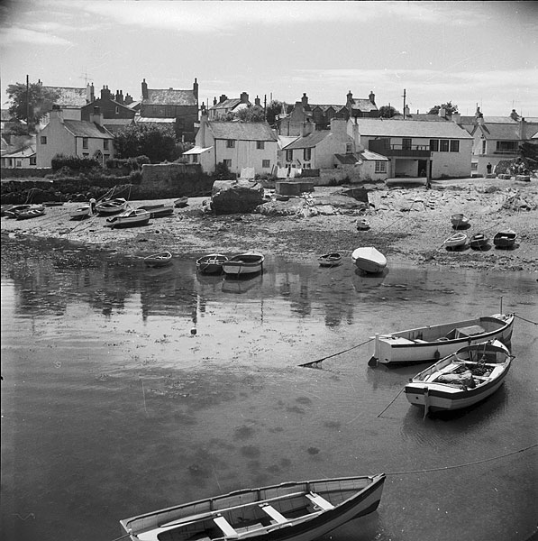 June view of Cemais (Cemaes?) Bay. Medium: Film negative Reference: (gch24482) Record no.: 3470984 More information about the Geoff Charles Collection at the National Library of Wales Geoff Charles' photographs also form part of the Europeana Libraries Project